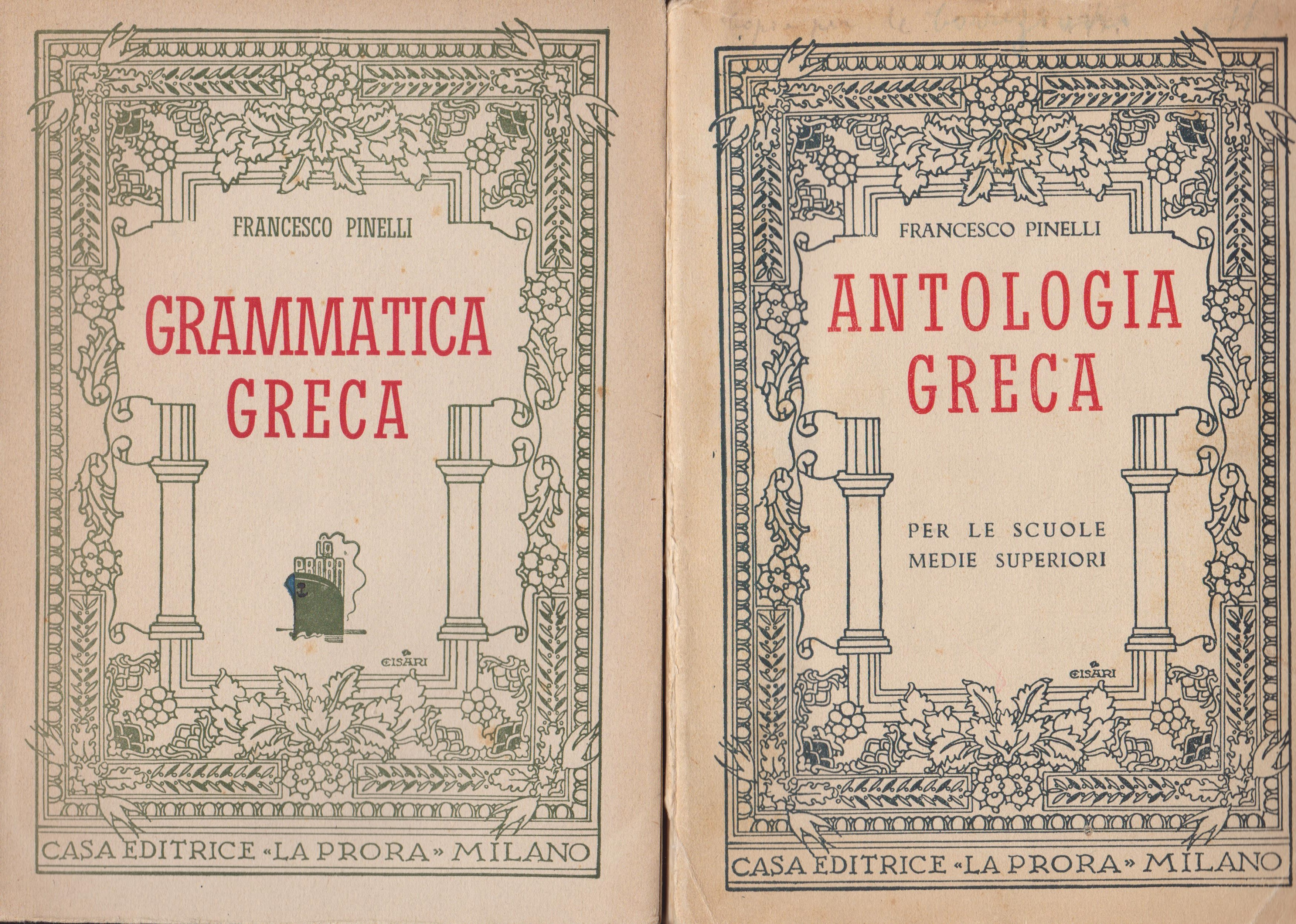 Covers of first editions of "Grammatica Greca" and "Antologia Greca" by Francesco Pinelli